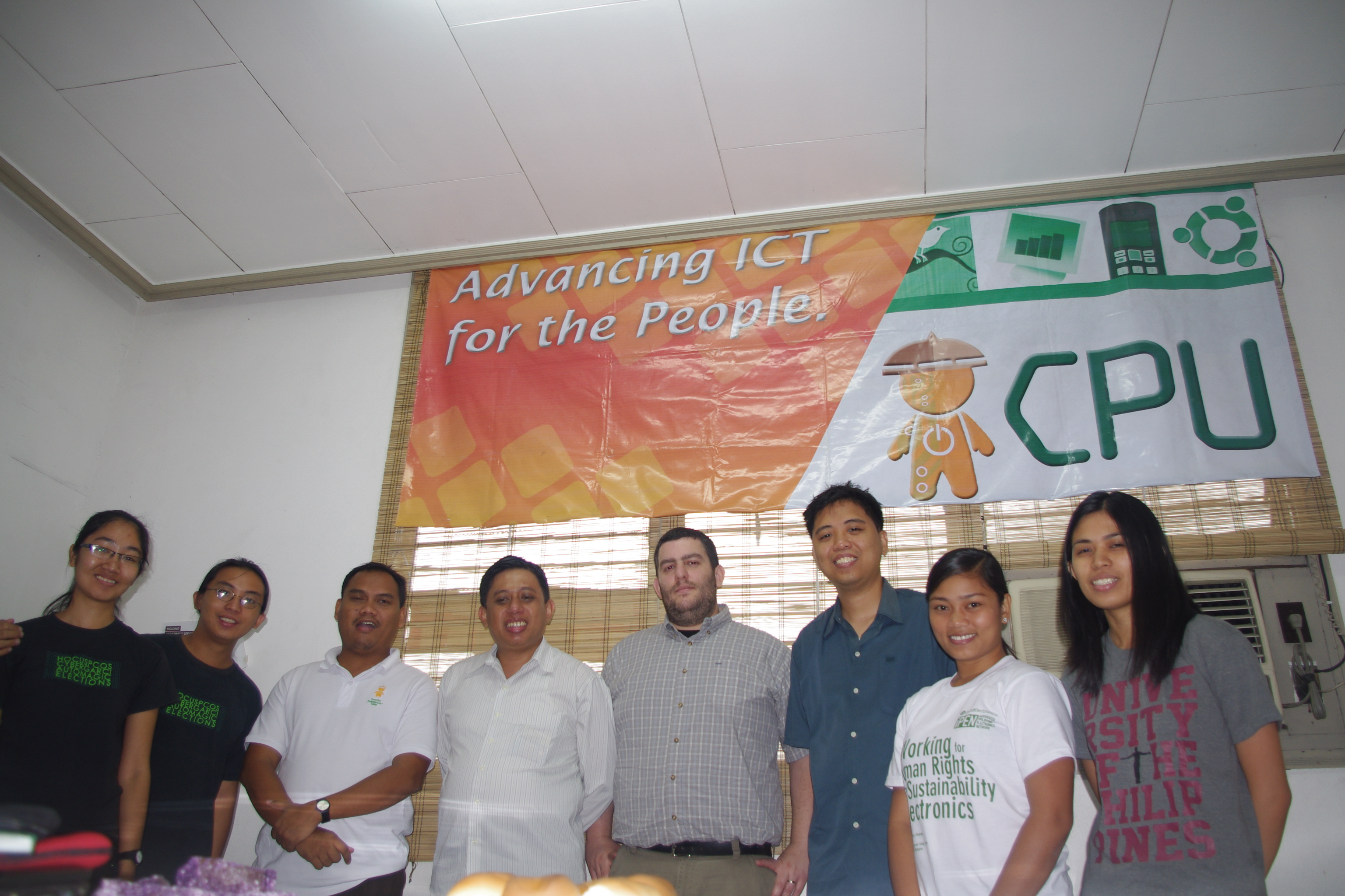 2011 Wikimedia East Asia Tour: Philippines - Meeting with CPU volunteers led by Rick Bahague